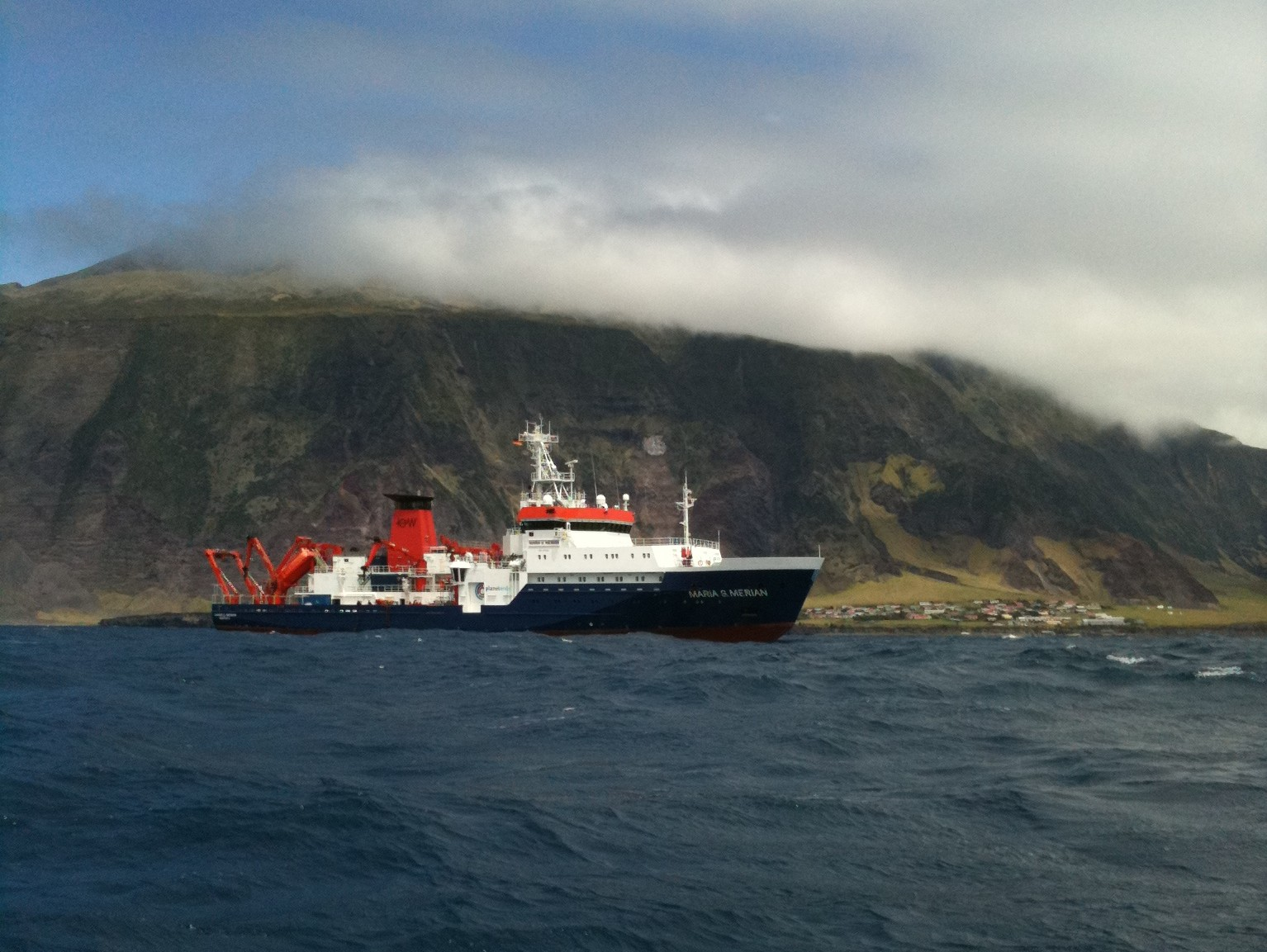 German research vessel Maria S. Merian in front of the island Tristan da Cunha. In the background is the settlement Edinburgh of the Seven Seas.